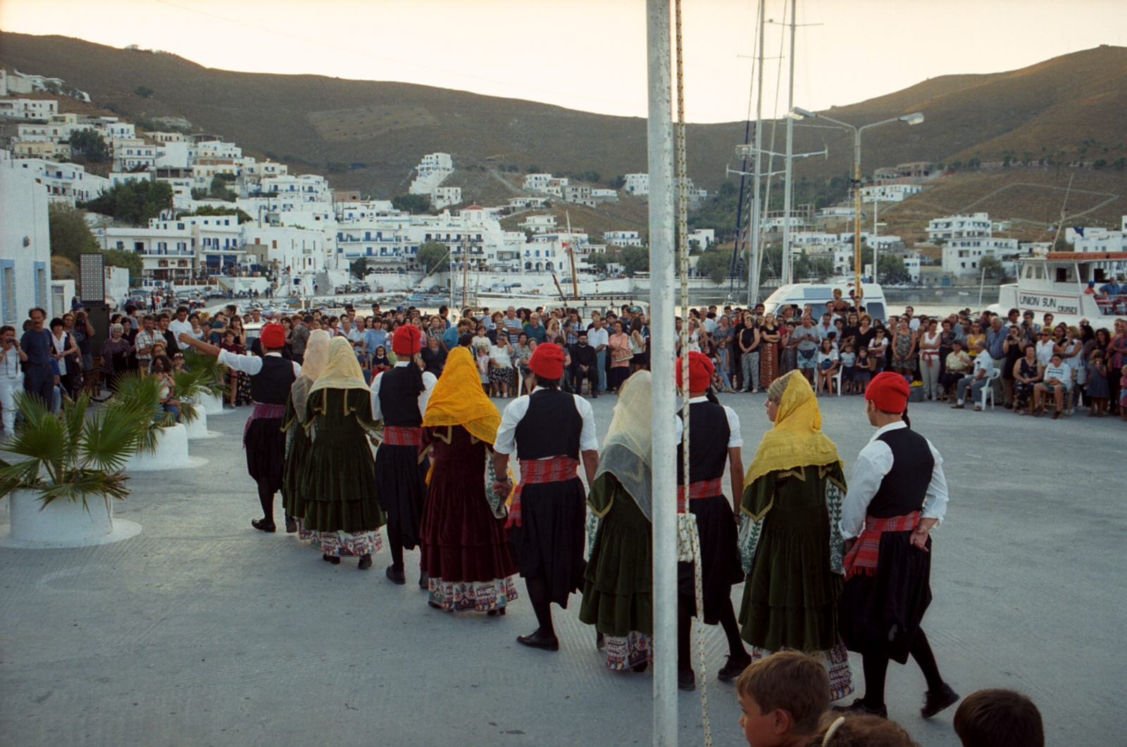 Evening in the harbor at Astypalaia. Astypalaia goodbye to summer guests.